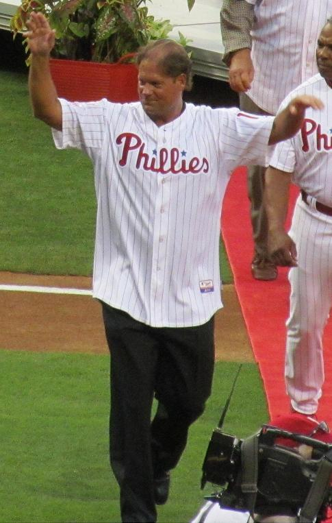 Darren Daulton August 10 2012 in Philadelphia